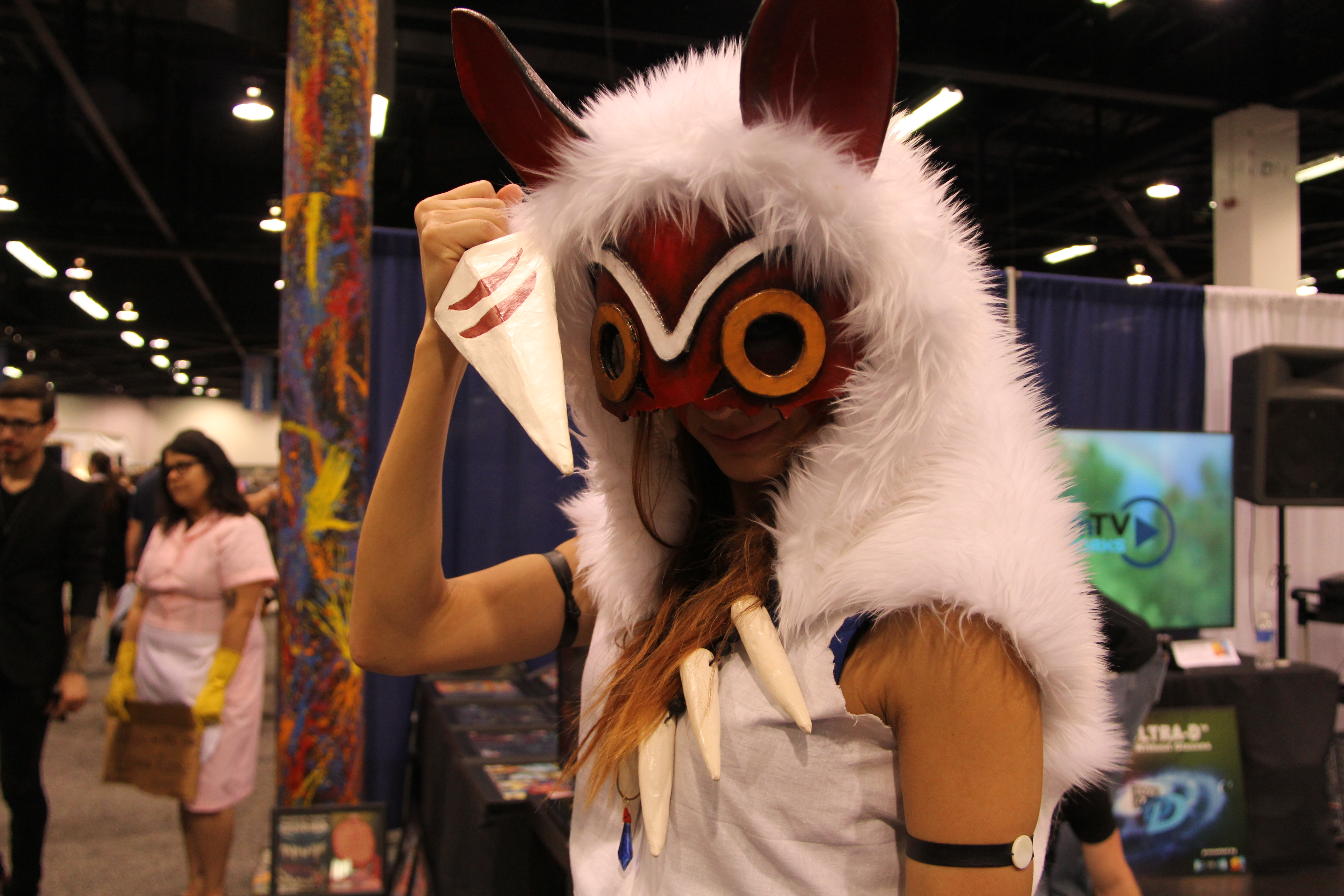 A cosplay of San from Princess Mononoke